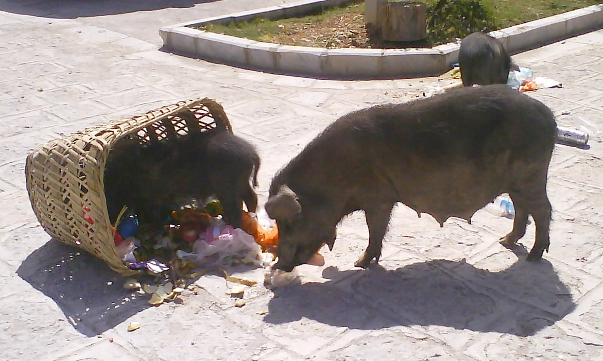 Tibetan pigs, sow and two of its piglets searching food in the trashcan of Pota tso natural reserve national park in Xianggelila, Yunnan province, China.